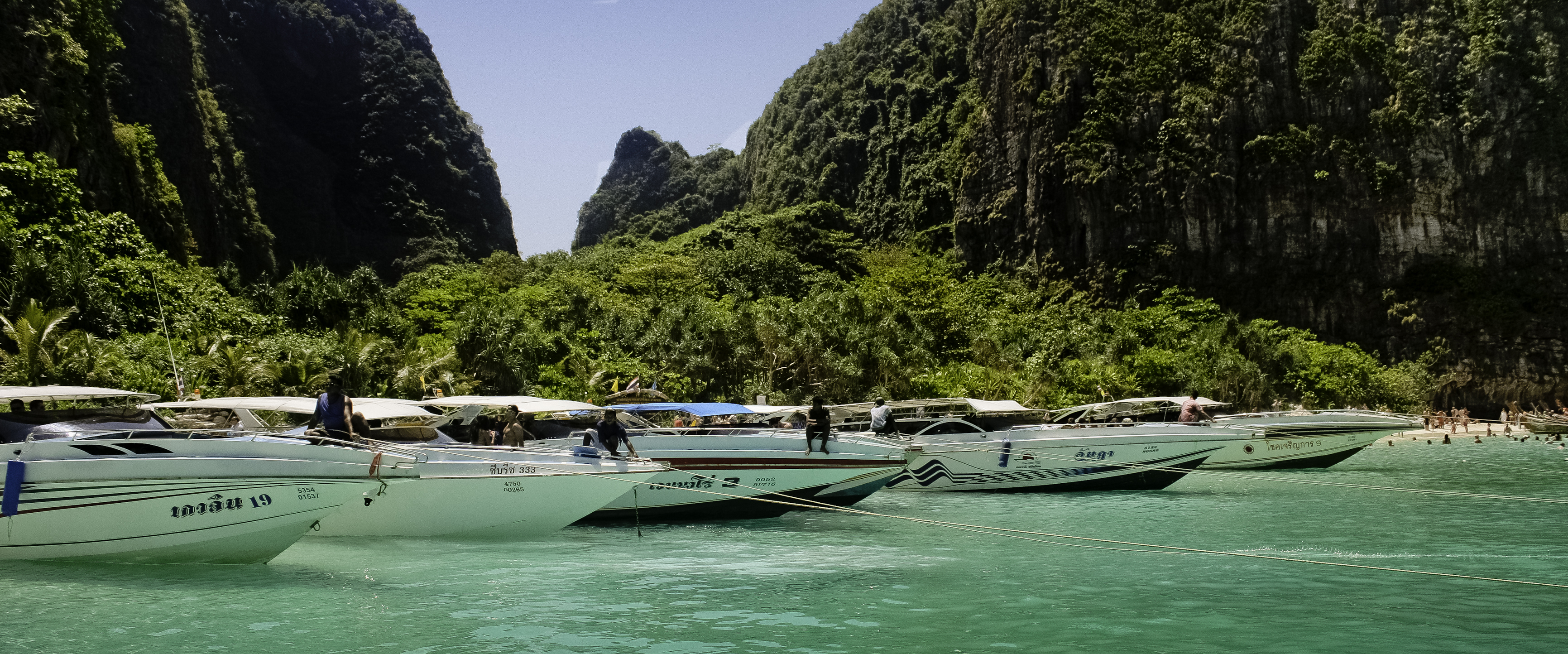 SpeedBoats At Maya Bay, Krabi, Thailand